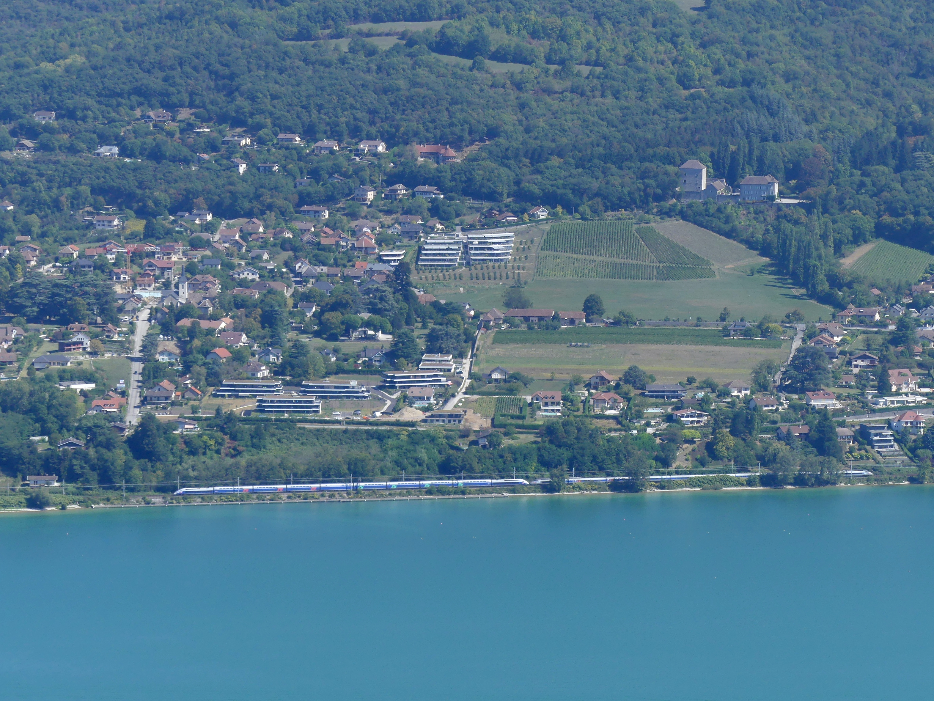 Sight of two French TGVs, one coming from Annecy and the other from Milano (Italy), bound for Paris leaving Aix-les-Bains along the Bourget lake, in Savoie.